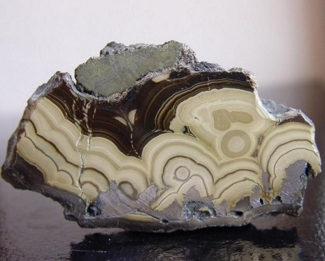 Sphalerite, variety Schalenblende Locality: Pomorzany Mine, Gmina Olkusz, Lesser Poland Voivodeship, Poland Size: 7.4cm x 4.2cm x 0.8cm Schalenblende is a mixture of wurtzite, galena, marcasite, and sphalerite that is carved and polished. This small slab of polished schalenblende is characteristic of the material that once came out of Poland and is regarded as a classic lapidary material